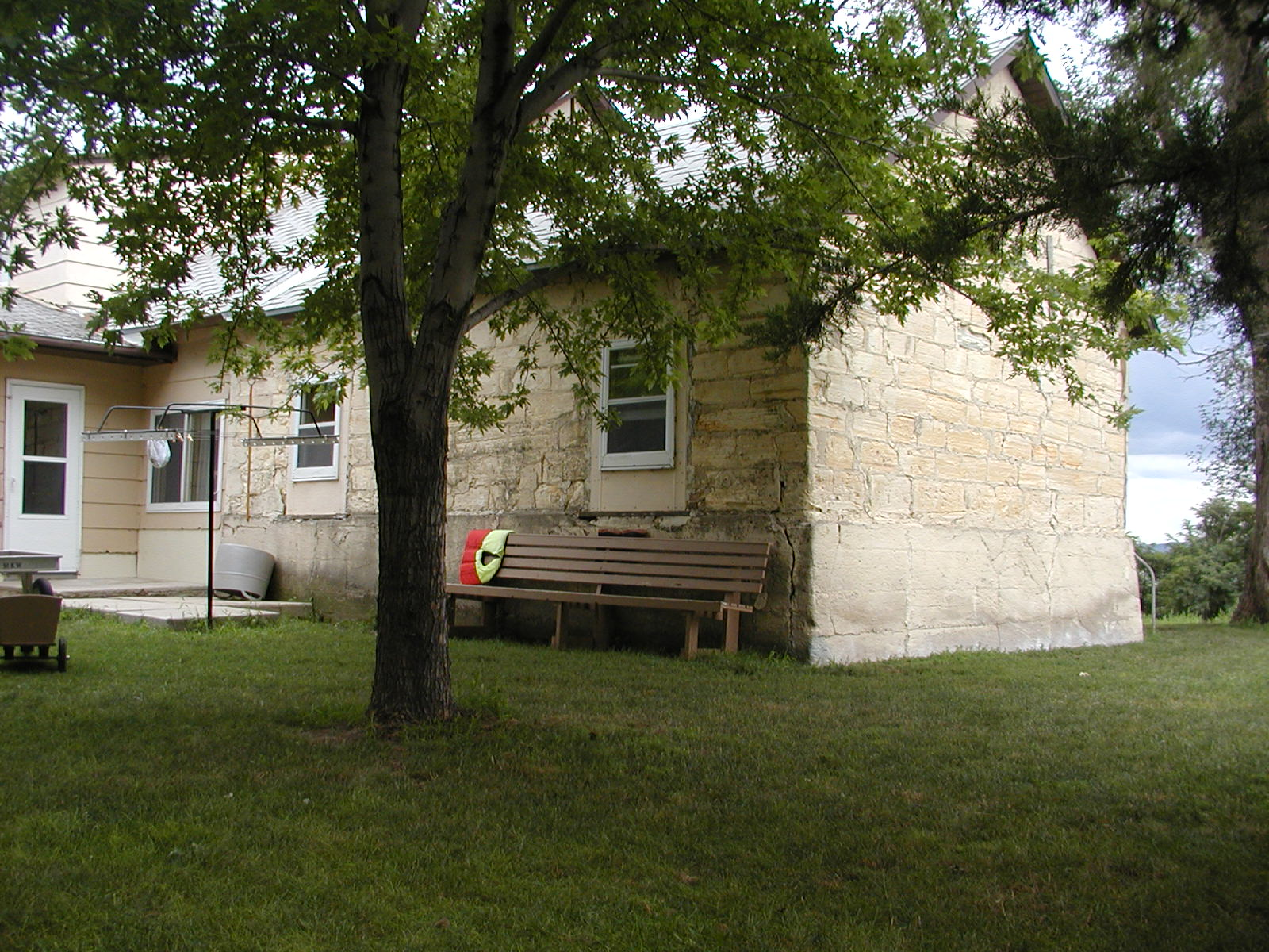 Kleinsasser, I; a building at the Bon Homme Hutterite community, near Tabor, South Dakota.